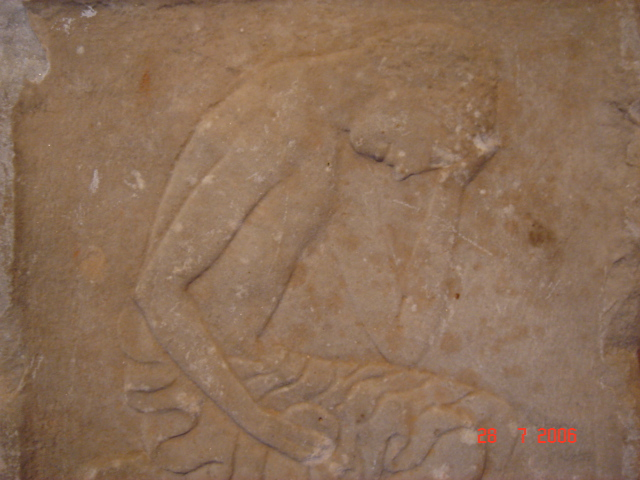 Relief fom Geraki, Archaeological Museum Sparta